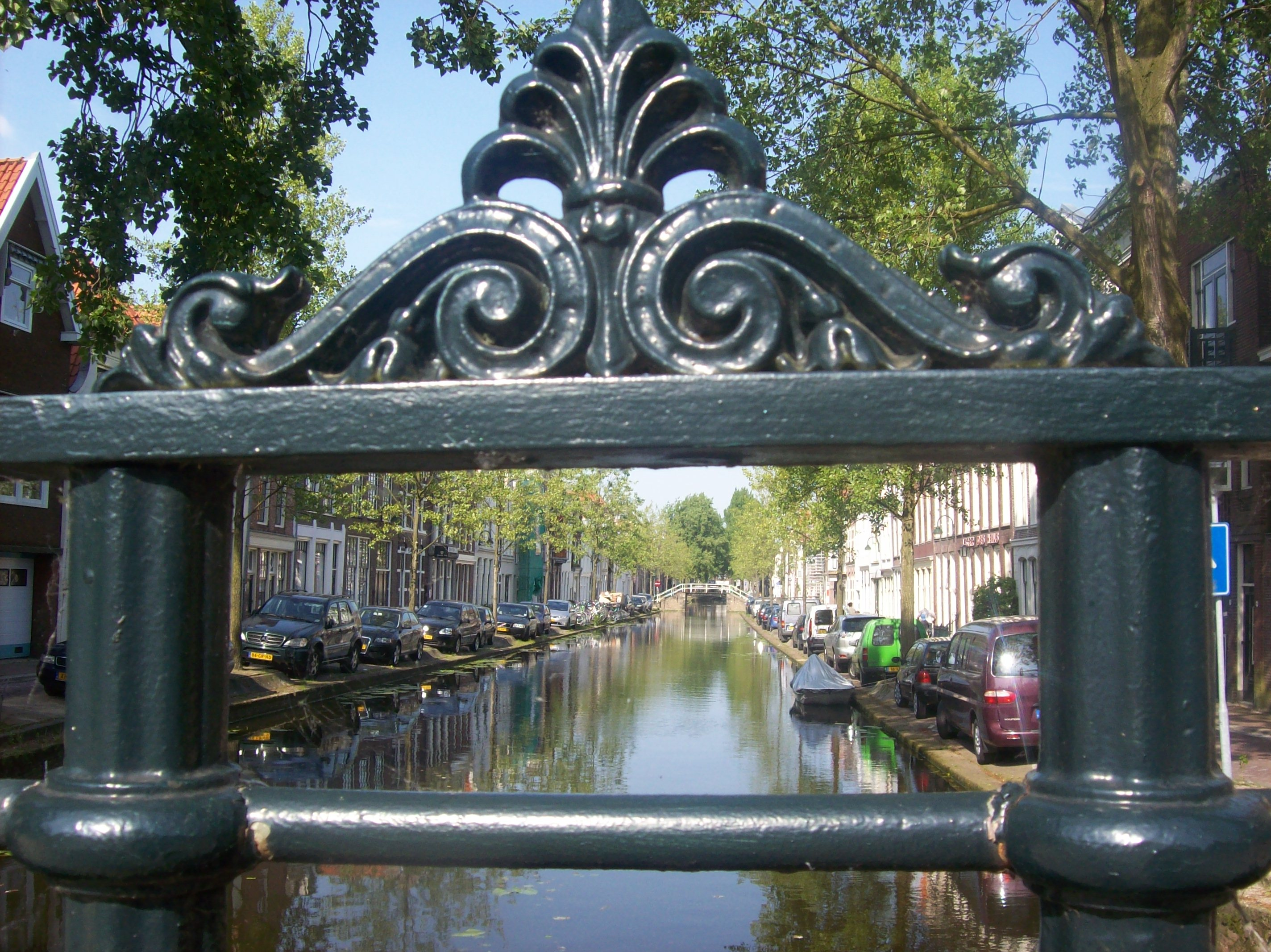 The Turfmarkt in Gouda